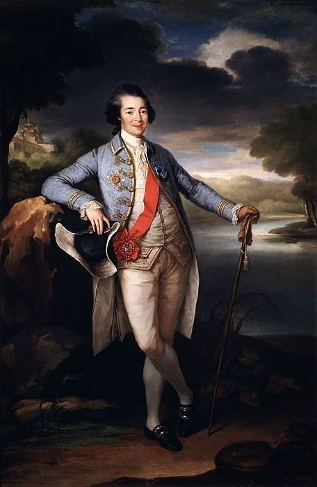 Alexander Kurakin